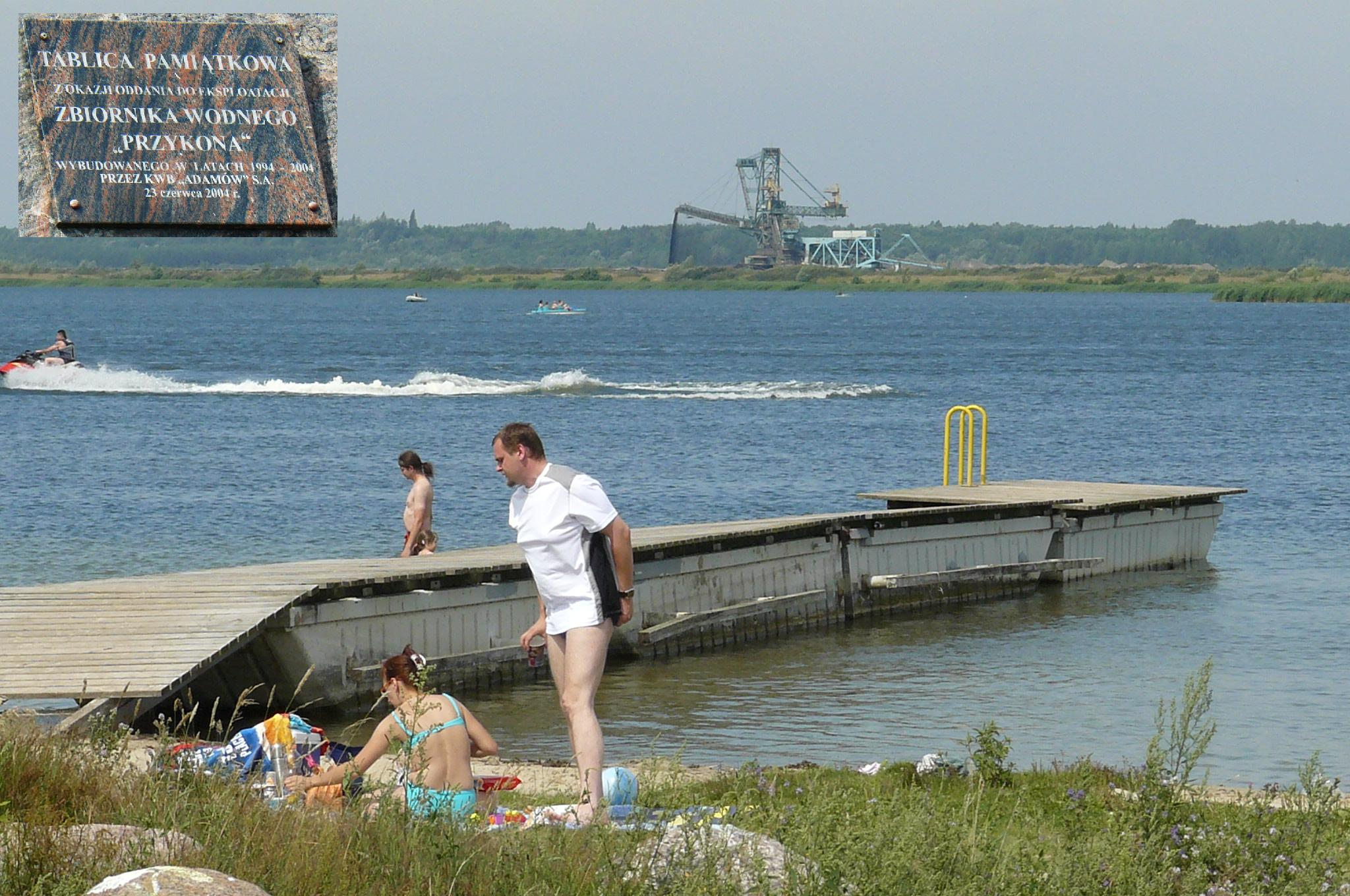 Przykona Pond, PL.